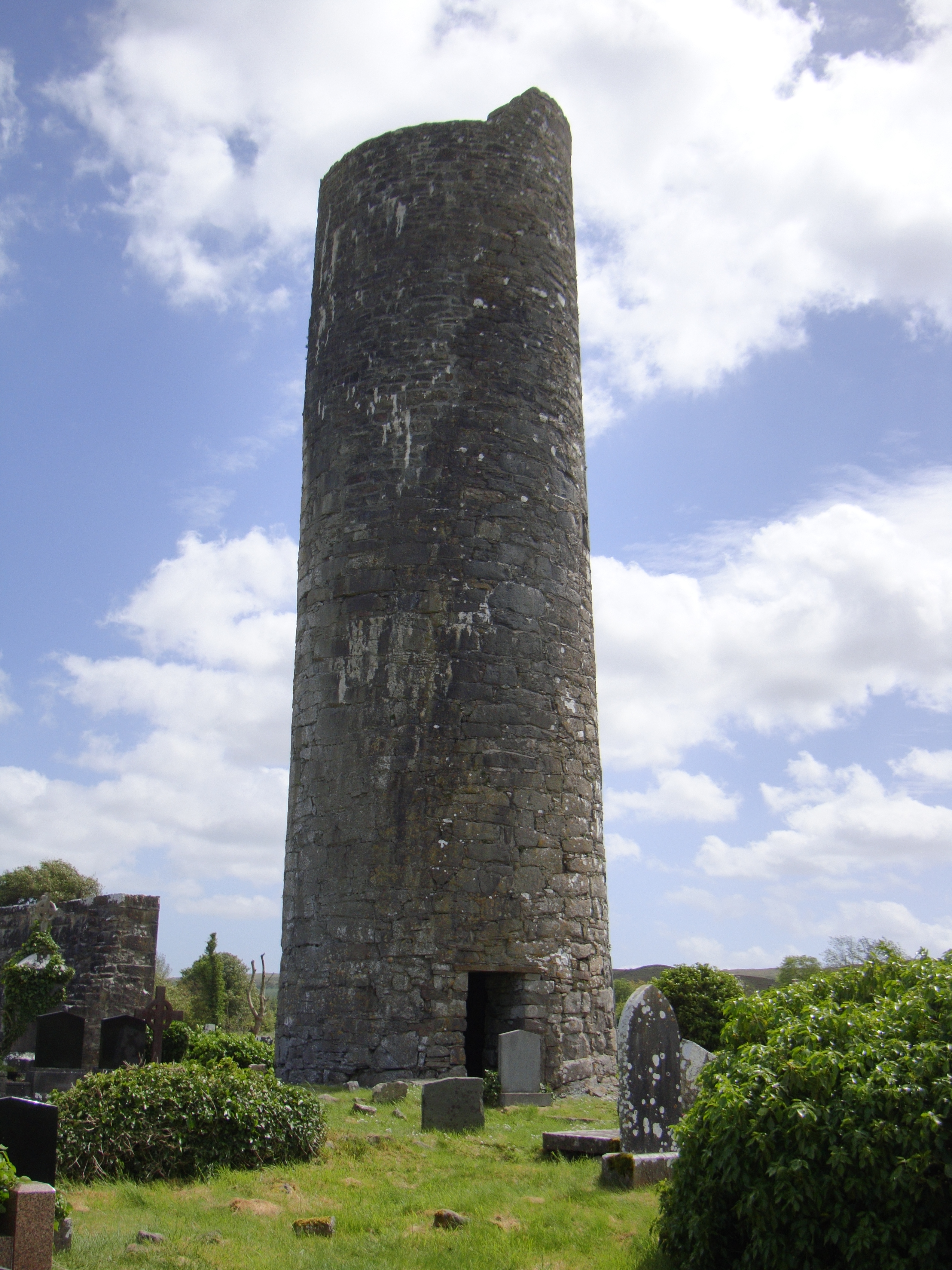 Photograph of remains of Aghagower round tower, Co. Mayo, Ireland